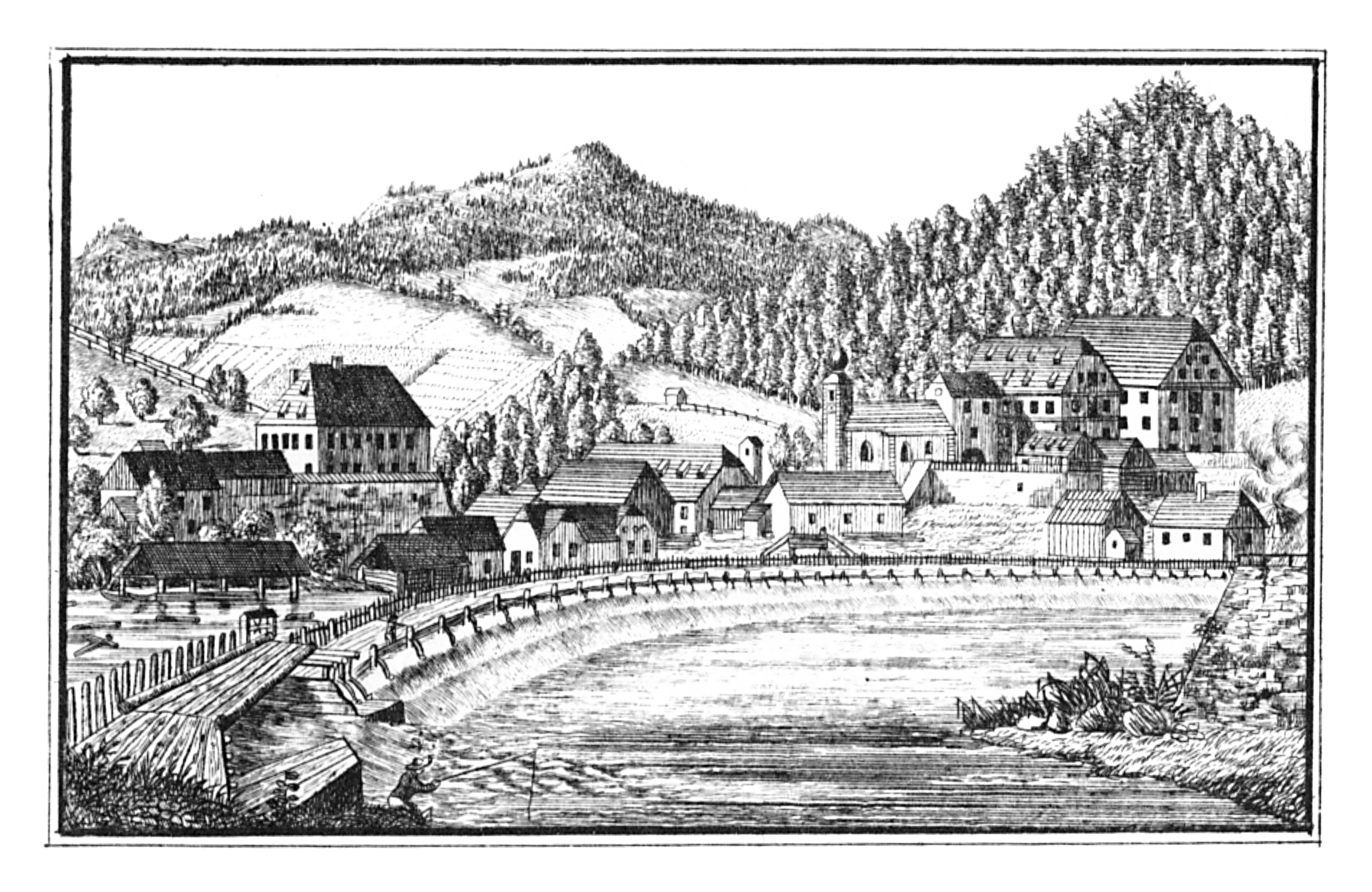 J. F. Kaiser - lithographirte Ansichten der Steyermärkischen Städte, Märkte und Schlösser, Graz 1824-1833 Joseph Franz Kaiser (1786–1859) Alternative names J. F. KaiserDescriptionAustrian printer and editorDate of birth/death 11 March 1786 19 September 1859Location of birth/death Graz (Styria) GrazAuthority control : Q1499963 VIAF: 30629353 ISNI: 0000 0000 3083 0153 LCCN: n87141671 GND: 129880159 NLP: A24960305 WorldCat creator QS:P170,Q1499963 . Scanprojekt Community Projektbudget 2012 This scan or this PDF-file was created within the GLAM-project Bookscanning, supported by Wikimedia Germany and Wikimedia Austria as a part of the community-project to capture books, documents and pictures which are not eligible to copyright or for which the copyright has expired. This document describes or depicts an object which is located in Austria today. Send requests for uncompressed scans to Hubertl. This work is in the public domain in its country of origin and other countries and areas where the copyright term is the author's life plus 100 years or less. You must also include a United States public domain tag to indicate why this work is in the public domain in the United States. This file has been identified as being free of known restrictions under copyright law, including all related and neighboring rights.